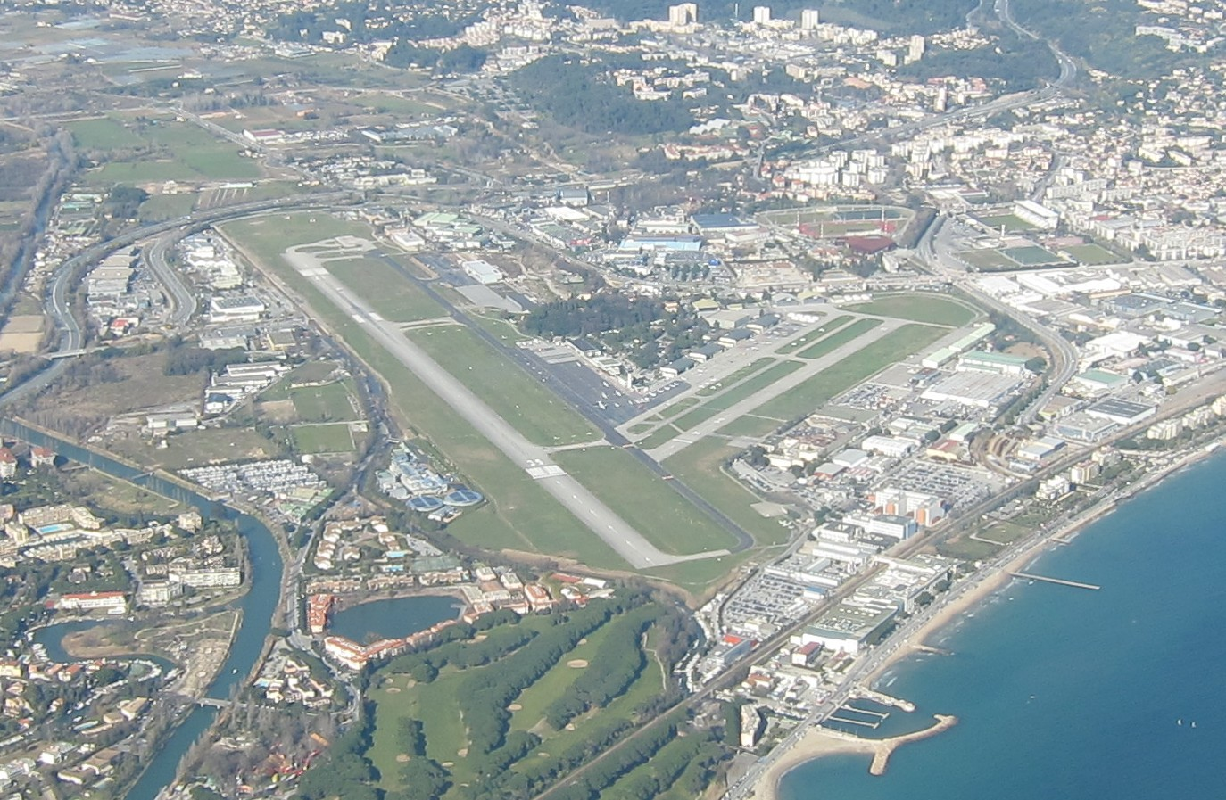 Aerial view of Cannes-Mandelieu airport (CEQ/LFMD) in Alpes-Maritimes, France.